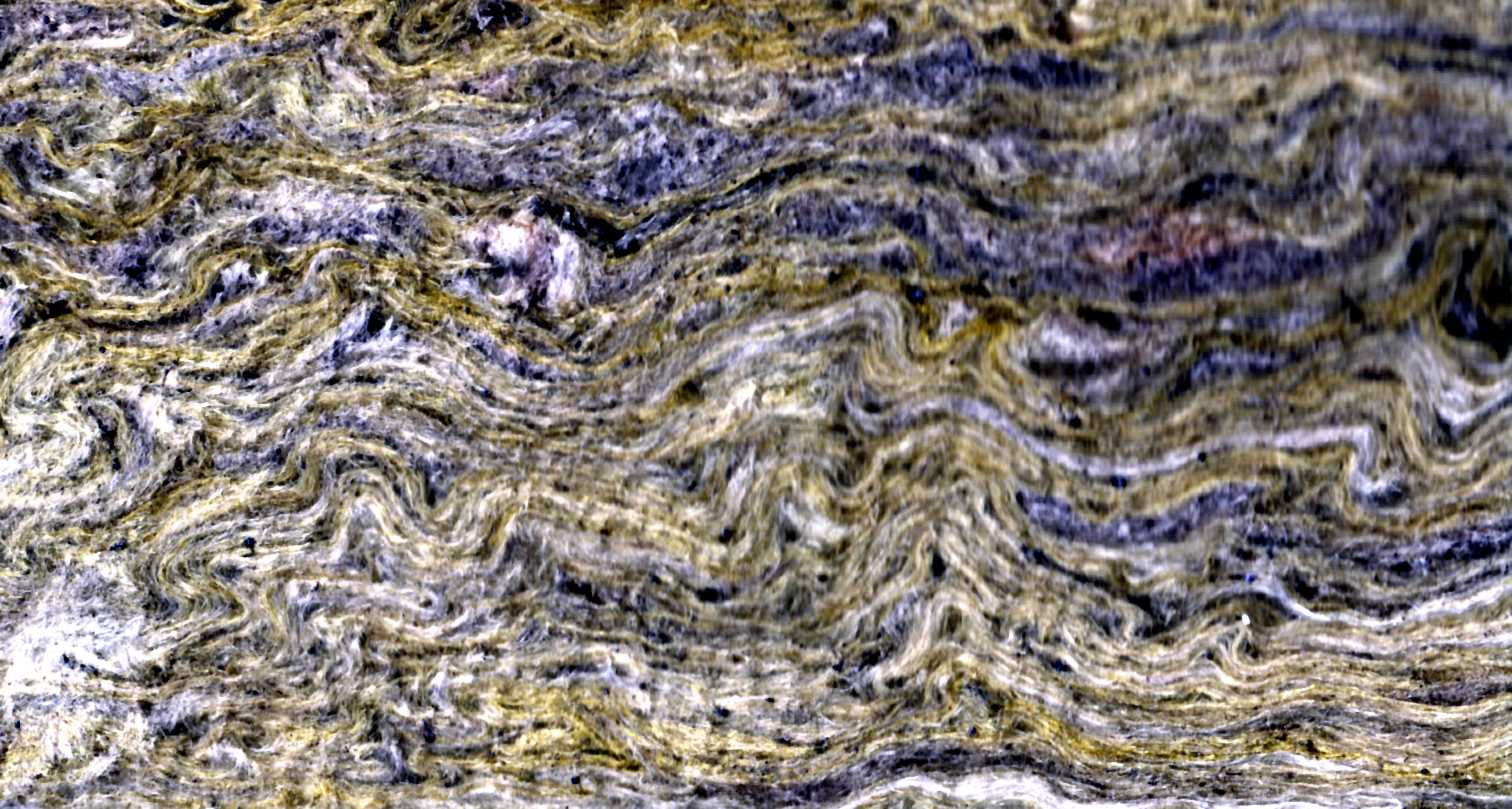 Rockwool Thermal insulation, scanned @ 1600dpi; Type Roxul RXL 80, useful in passive fire protection systems